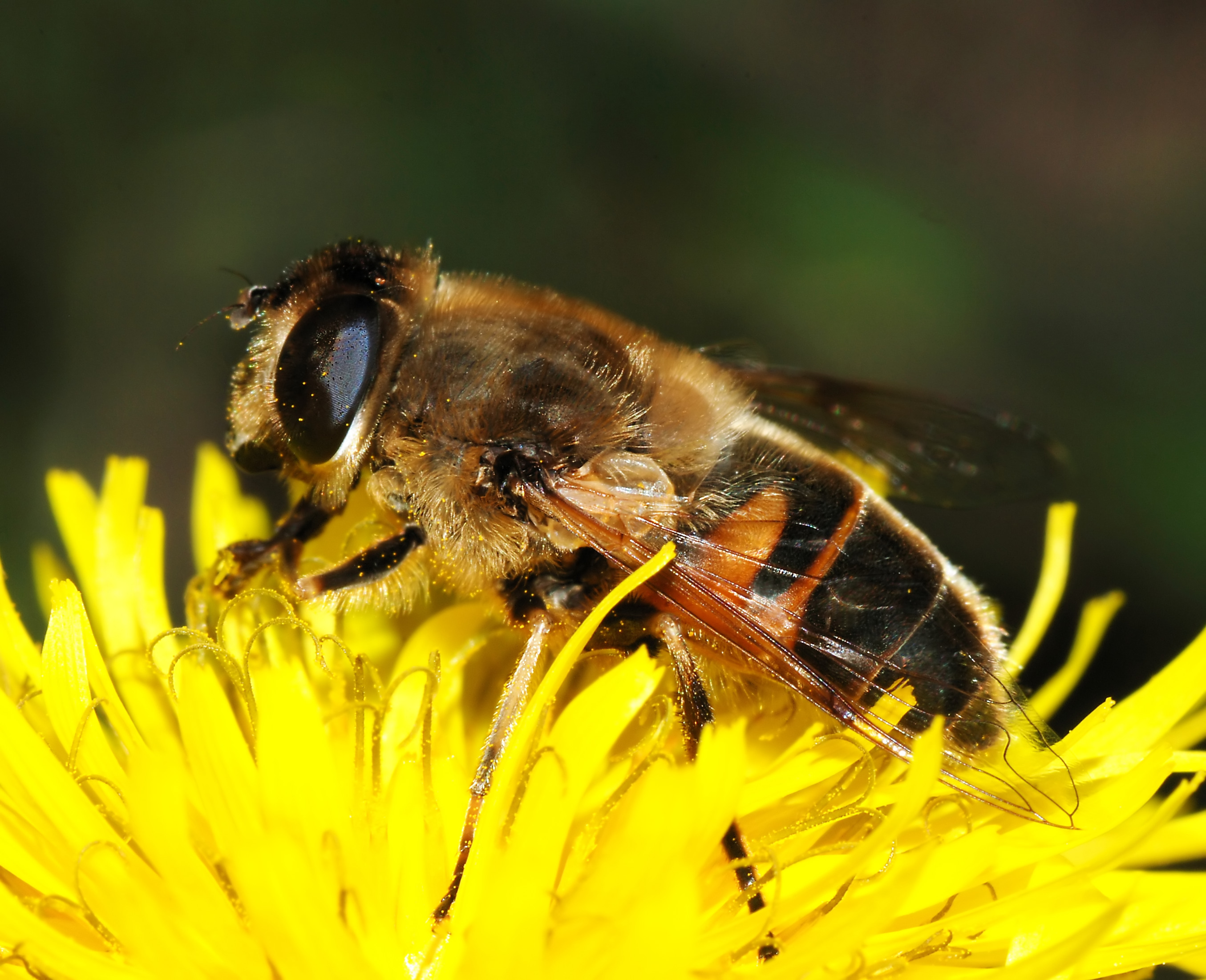 A female drone-fly (Eristalis tenax). Lisboa, Portugal Camera: Nikon D80, Tokina 100mm macro with extension ring Exposure: manual, F/22, 1/125, ISO 100